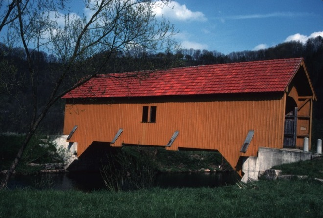 OBERGRONIGEN COVERED BRIDGE; BUILT IN 1886; REASSEMBLED IN 1988 OVER THE KOCHER RIVER NEAR SCHWABISCH HALL; 59’ QUEEN STYLE BRIDGE